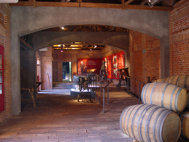 Wine museum in Winery Graffigna, located in the province of San Juan, Argentina.